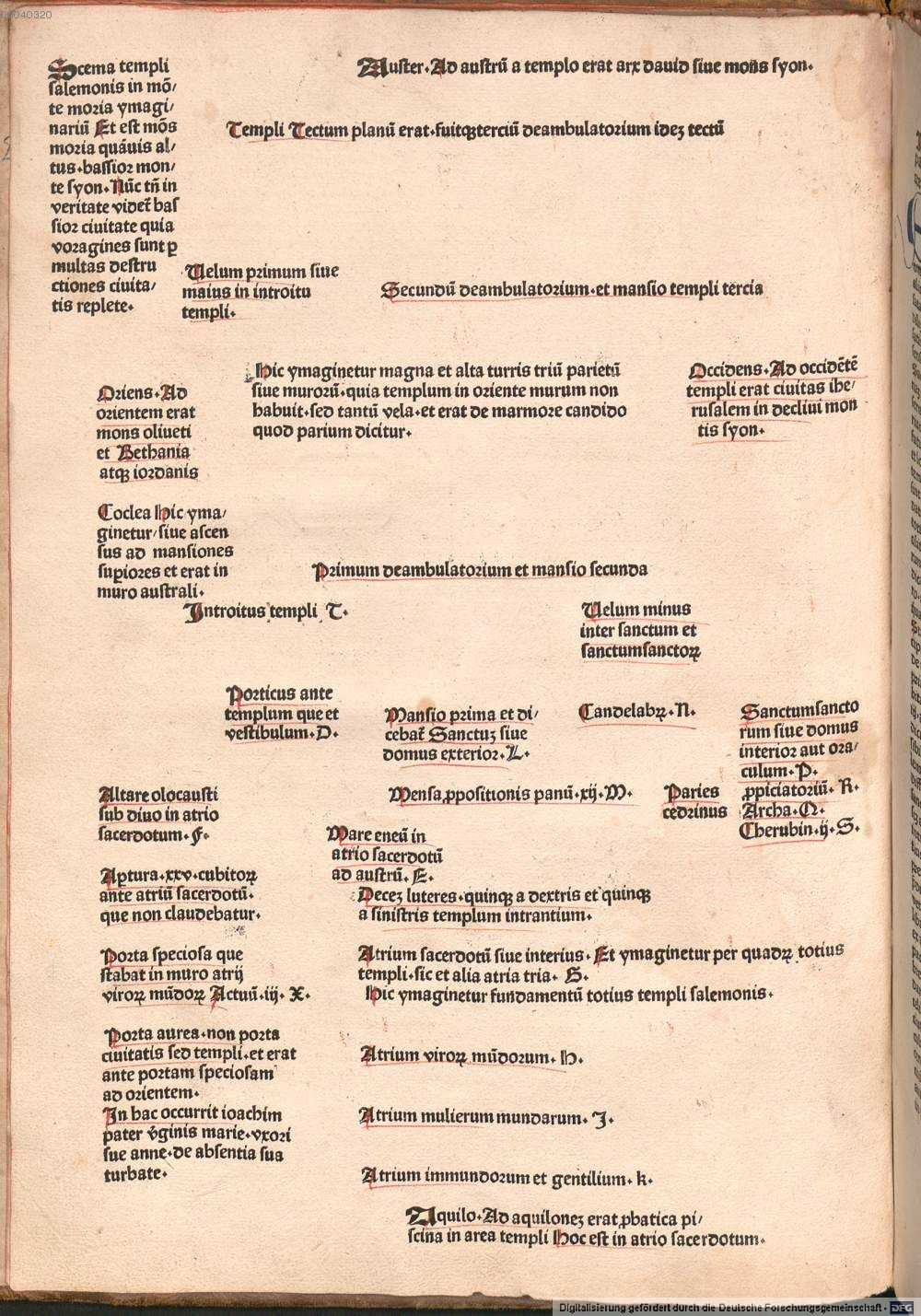 Scema Templi Salomonis, from de;Prologus Arminensis